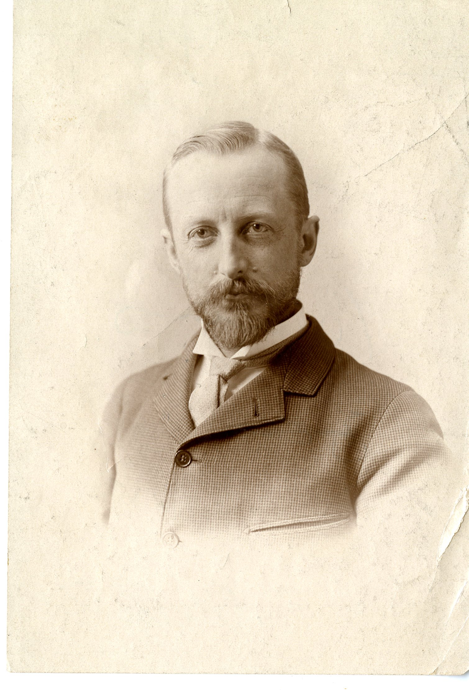 Portrait of John Charles Olmsted